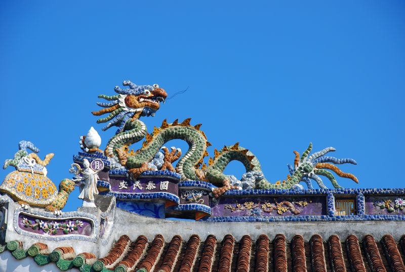 A dragon on the roof of a house in Hoi An.